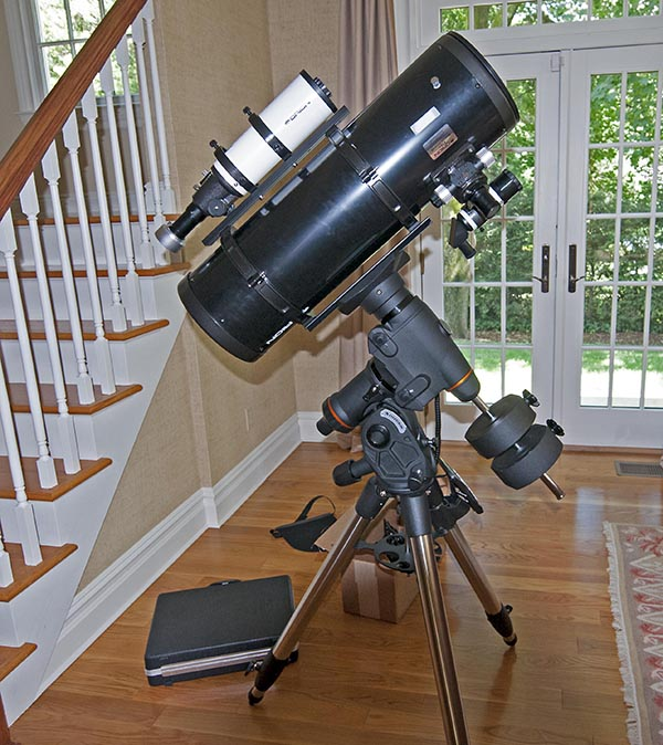 This is an Orion 8" Newtonian astrograph mounted on a Celestron CGEM mount. There is also a guide scope piggyback mounted on top of this. This setup is for astrophotography.